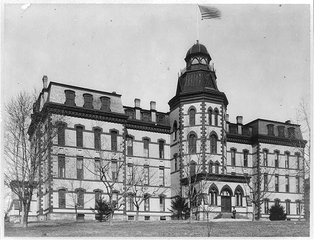 Main building, exterior, Howard University, Washington, DC REPRODUCTION No.: LC-USZ62-40466 (b&w film copy neg.) No known restrictions on publication.